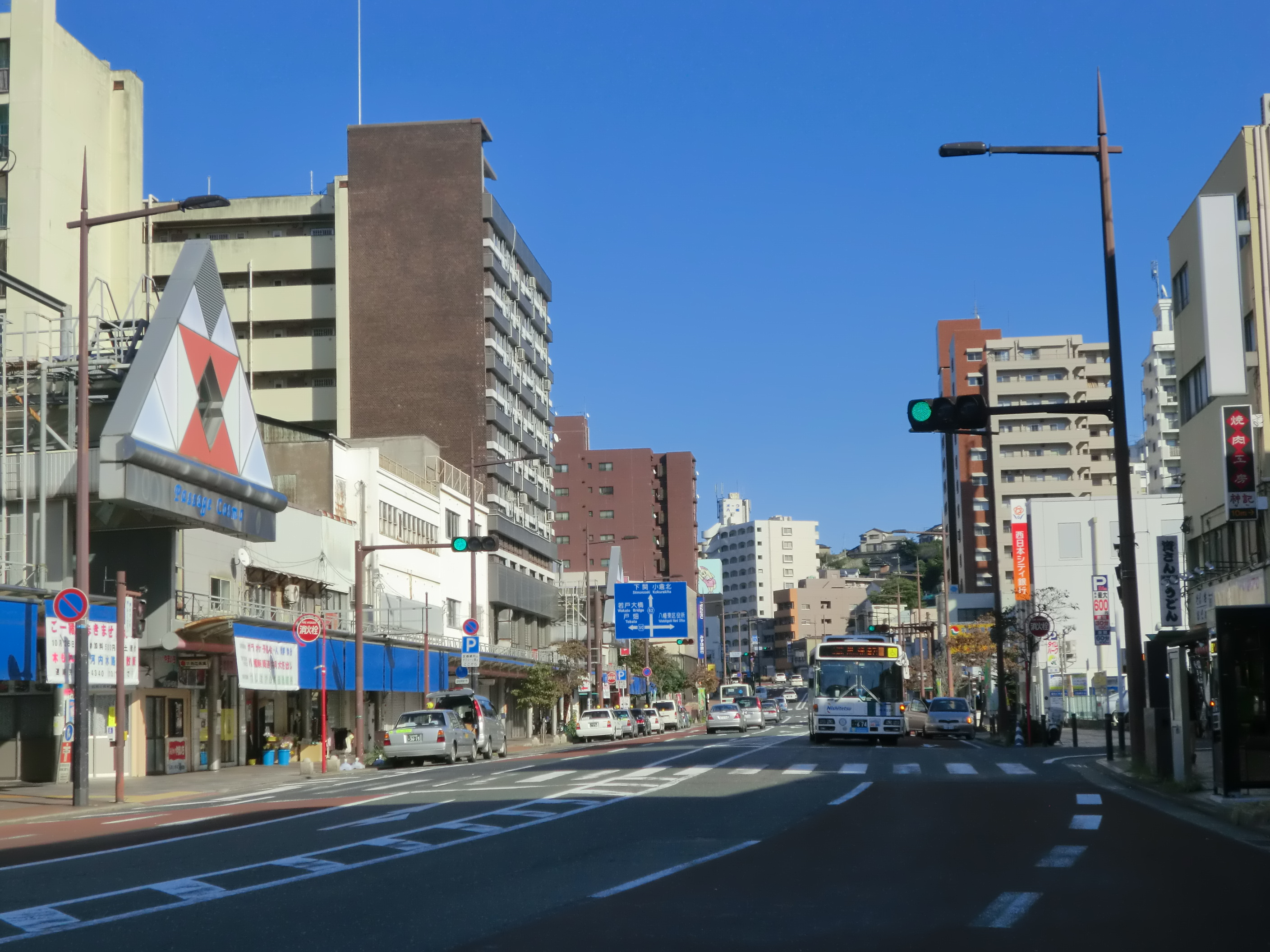 Downtown of Chuo area at Kitakyushu,Fukuoka,Japan.